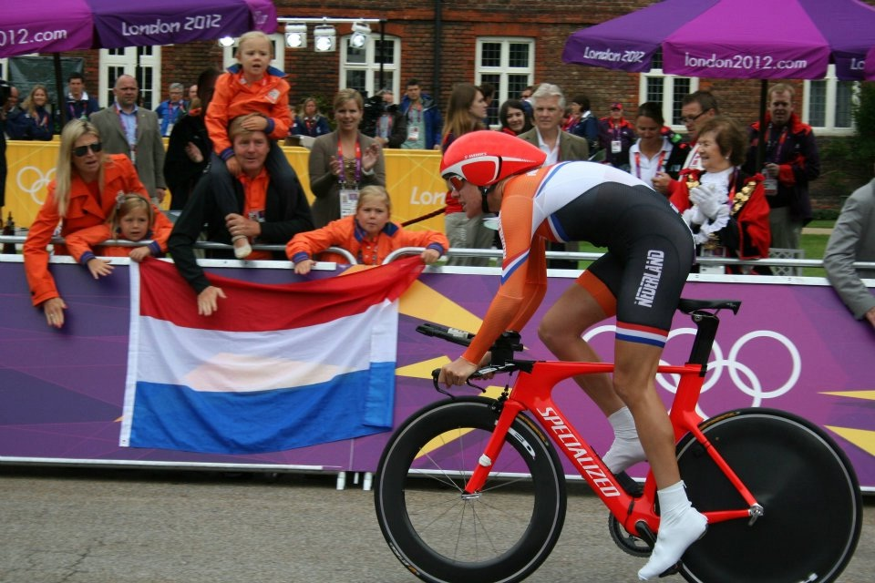 Ellen van Dijk during the time trial at the 2012 Summer Olympics supported by the Royal Family (Willem-Alexander, Maxima, Amalia Alexia and Ariane). On the right is the Mayor of Richmond upon Thames, Rita Palmer.